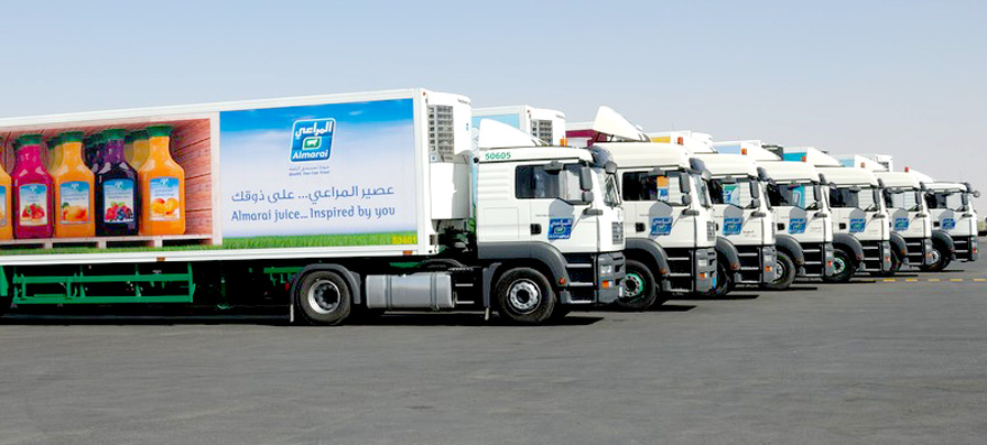 Photo of Almarai Reefer Trucks